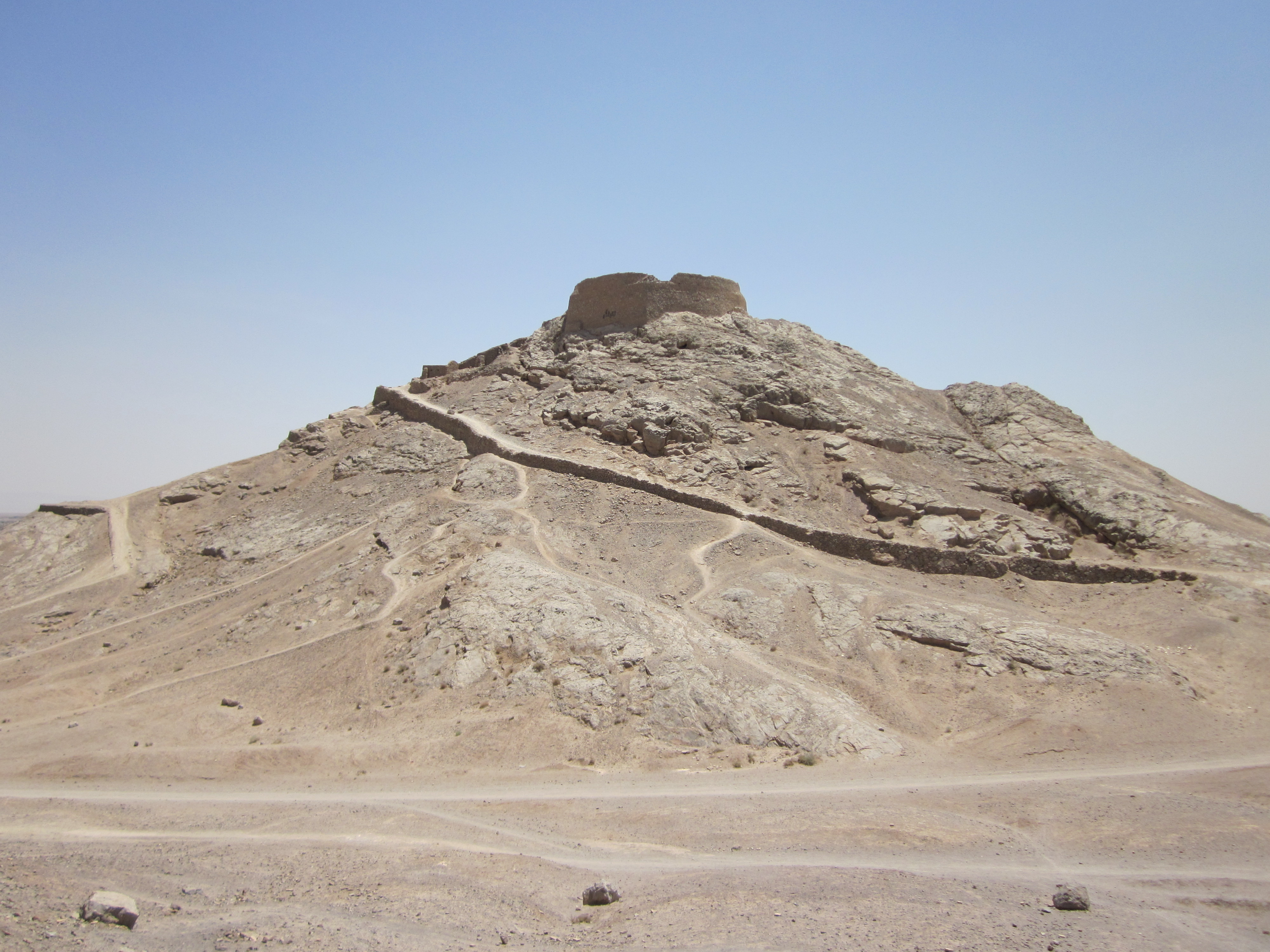 Tower of Silence, Yazd, Iran.